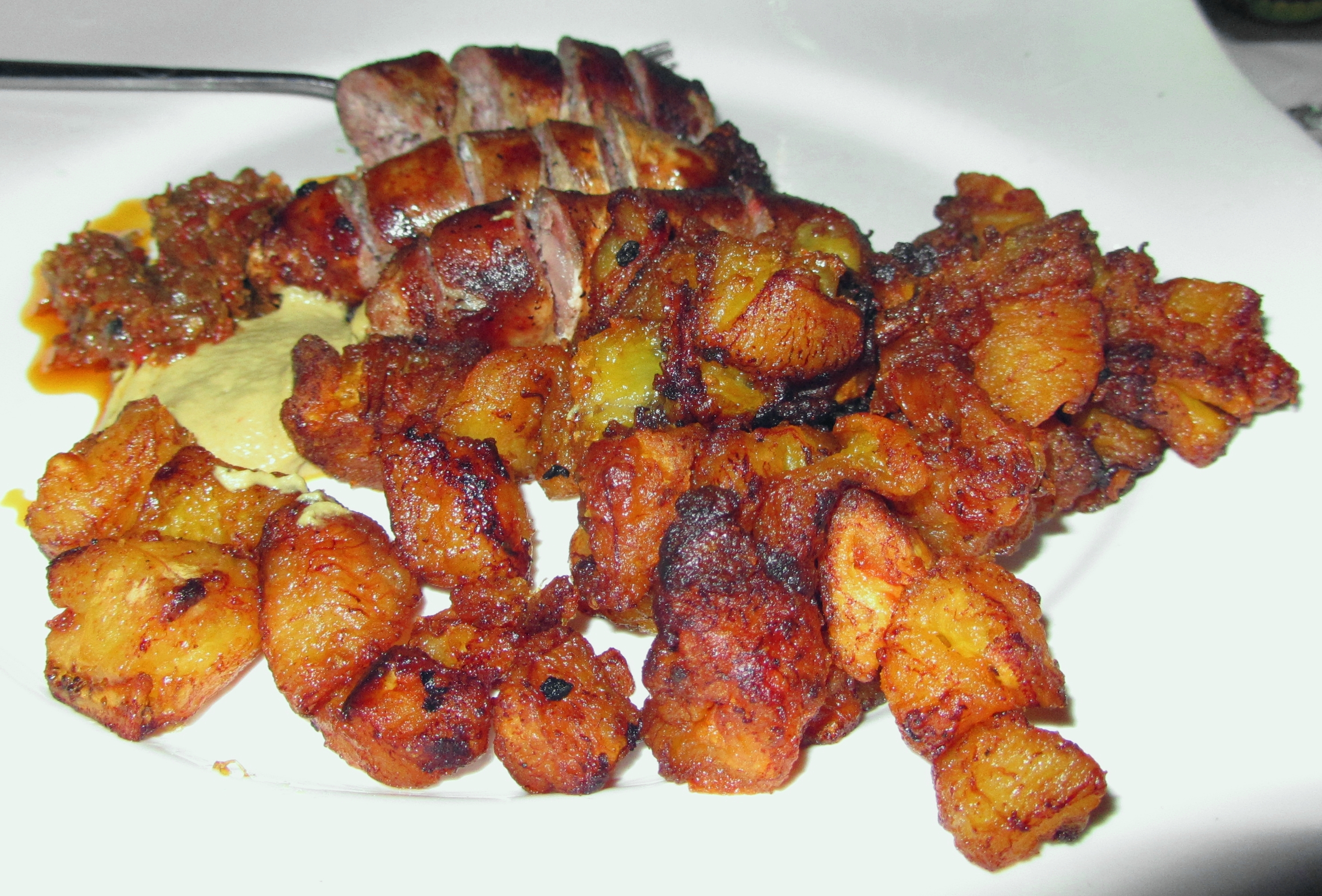 Sausage and alloco (plantain banana), Abidjan (Côte d'Ivoire)